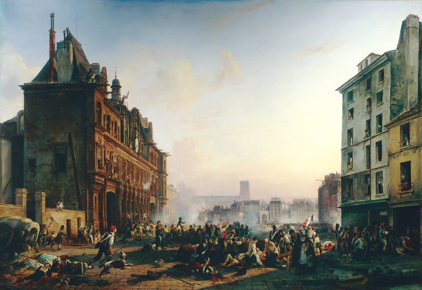 Depicts the taking of the city hall of Paris during the July Revolution on the 28th.